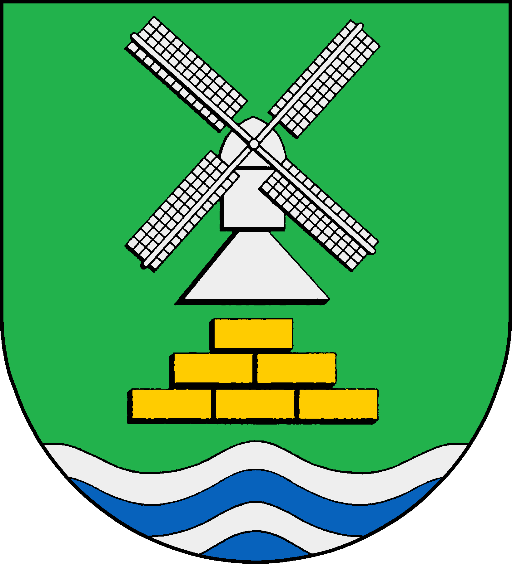 Coat of arms of the municipality Nortorf in Schleswig-Holstein, Germany.